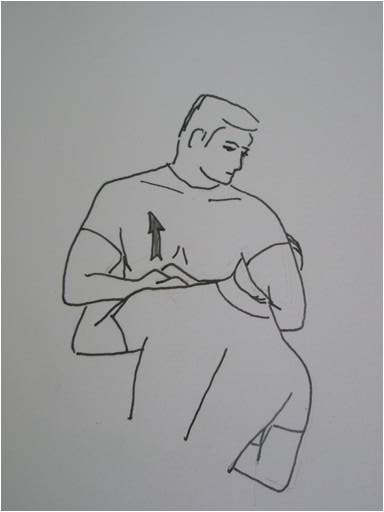 BJJ